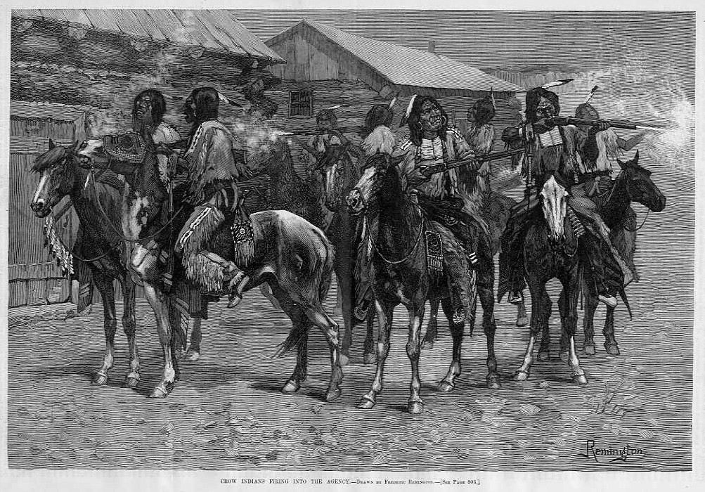 "Crow Indians Firing into the Agency" by Frederic Remington, from Harper's Weekly, November 1887.